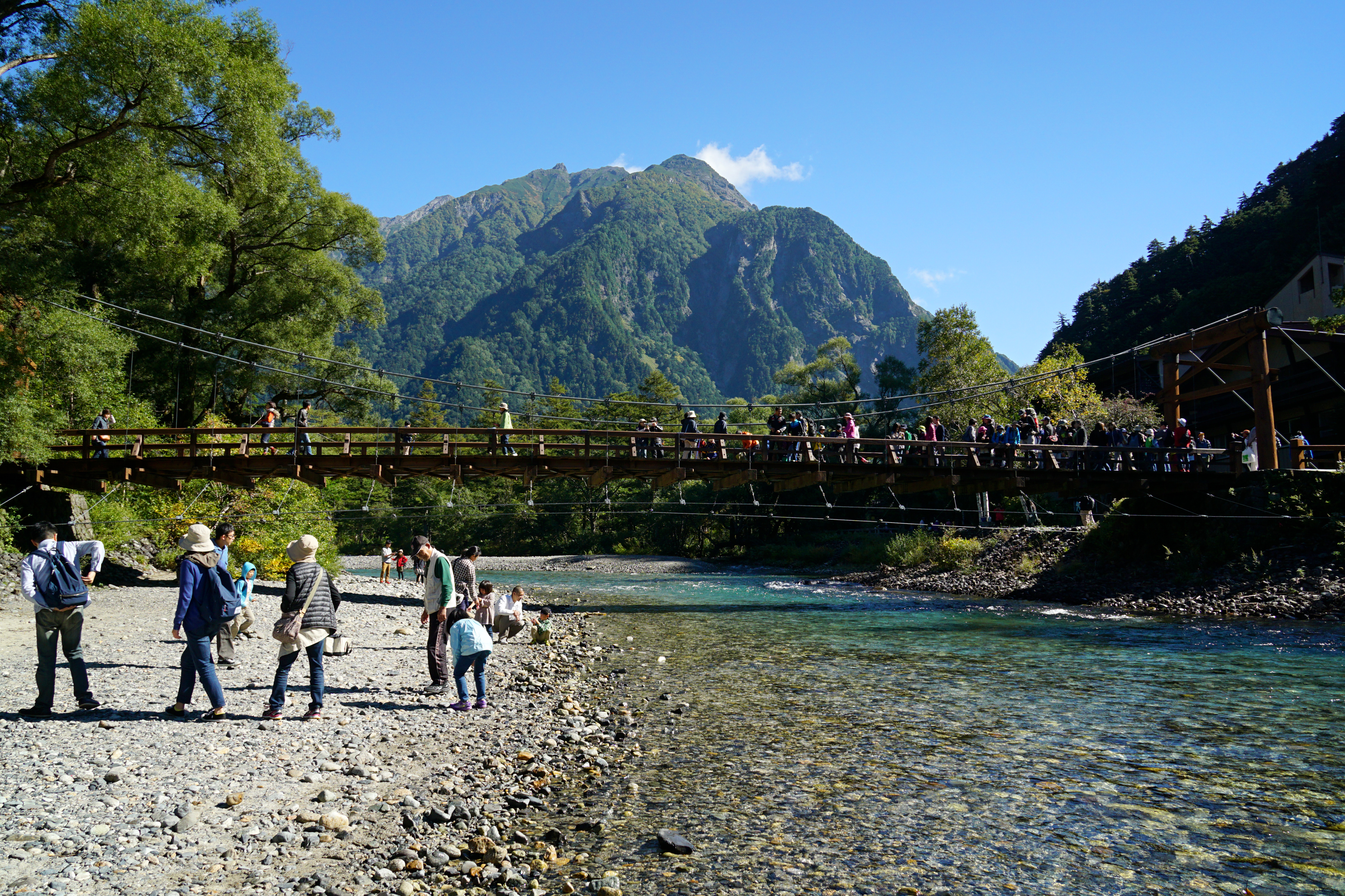 Mount Myojin and Kappa-bashi bridge at Kamikochi, Matsumoto, Nagano prefecture, Japan